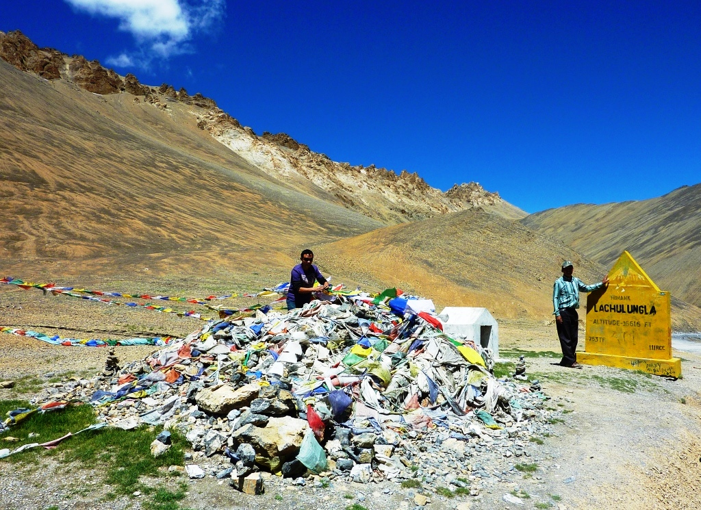 I took this photo on a trip to Ladakh in 2010 (Lachulung La mountain pass, elevation 16,616 ft, 5064 m)